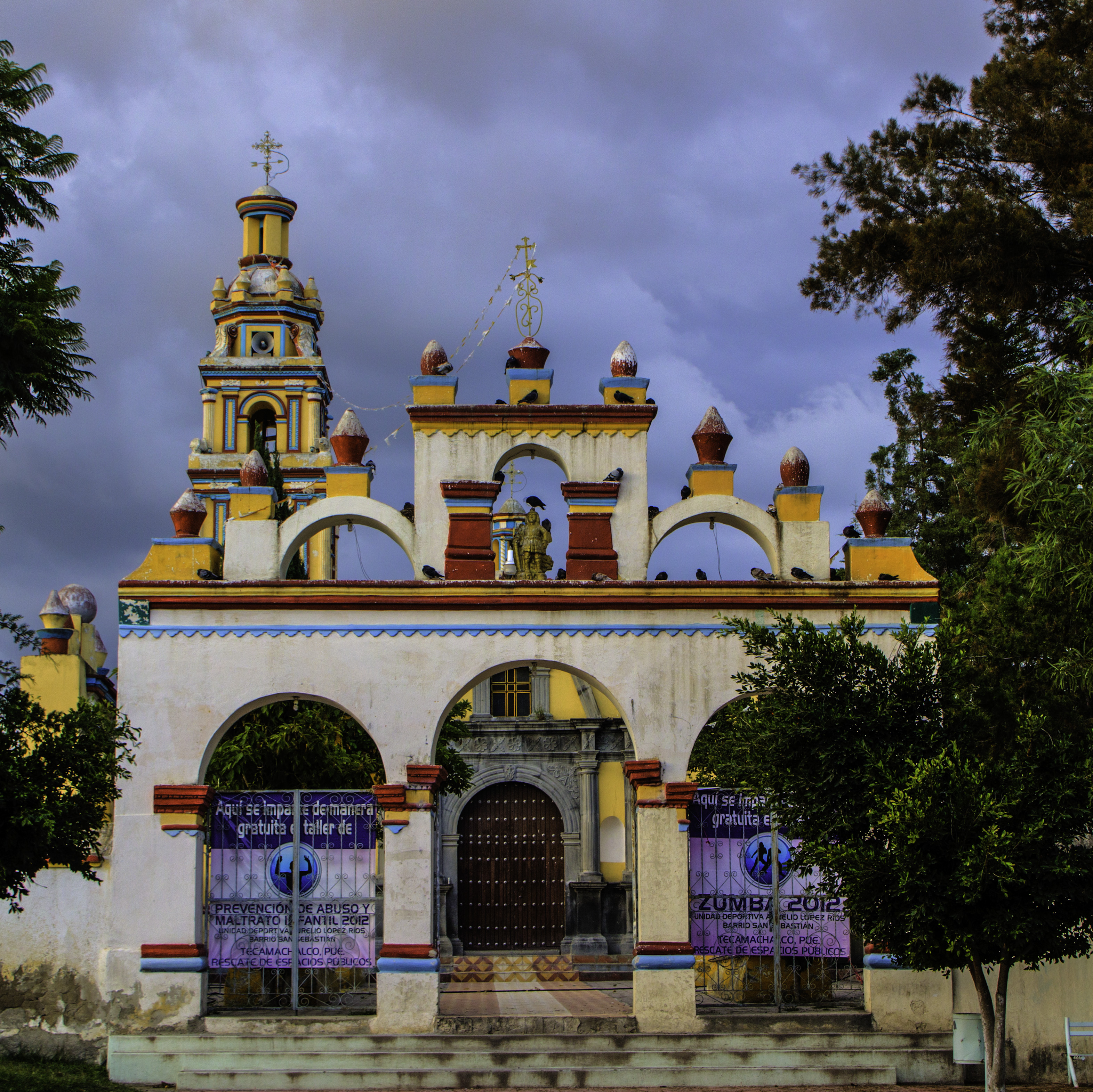 Church of San Sebastian in Tecamachalco, Puebla